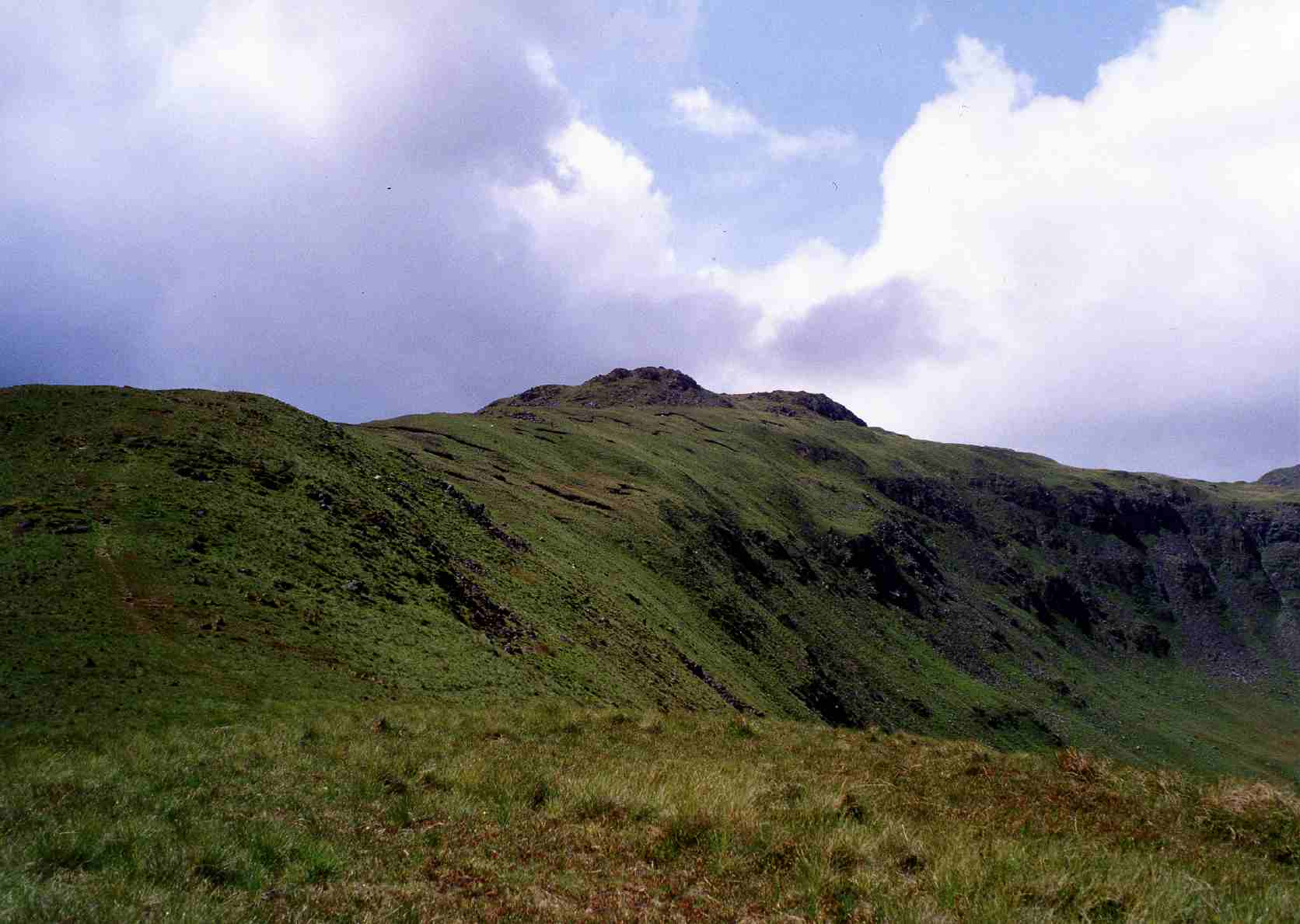 Little Hart Crag from High Hartsop Dodd with the crags of Black Brow on the right. Personal picture taken by Mick Knapton